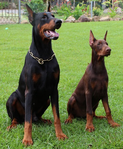 Dogs at Bravo Doberman, Panama. Father and son, Ultimo and Czar.